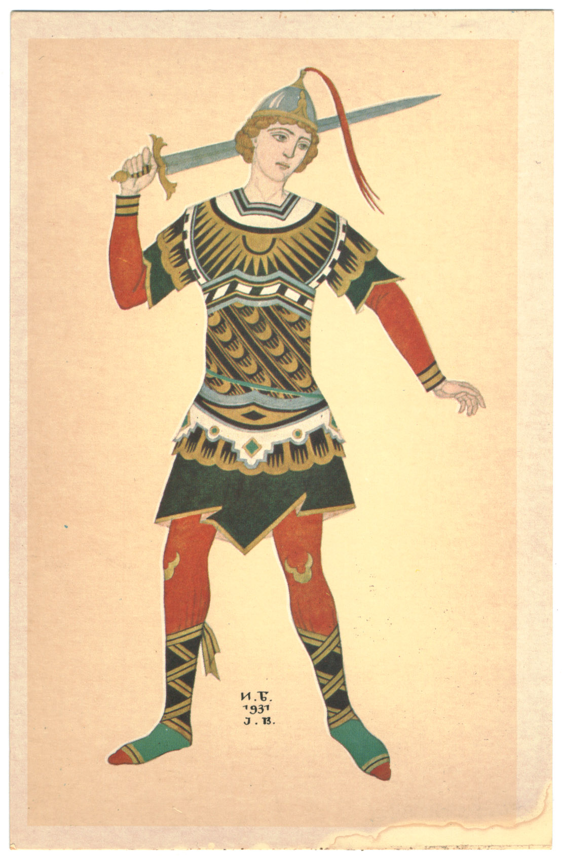 A WARRIOR. Costume design for the ballet "The Firebird" by Stravinsky. 1931